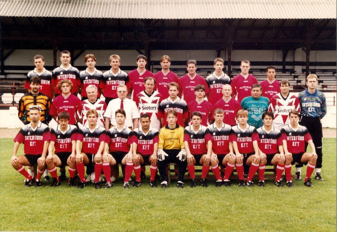 The Dorog team in NB I/B class in fall of 1997